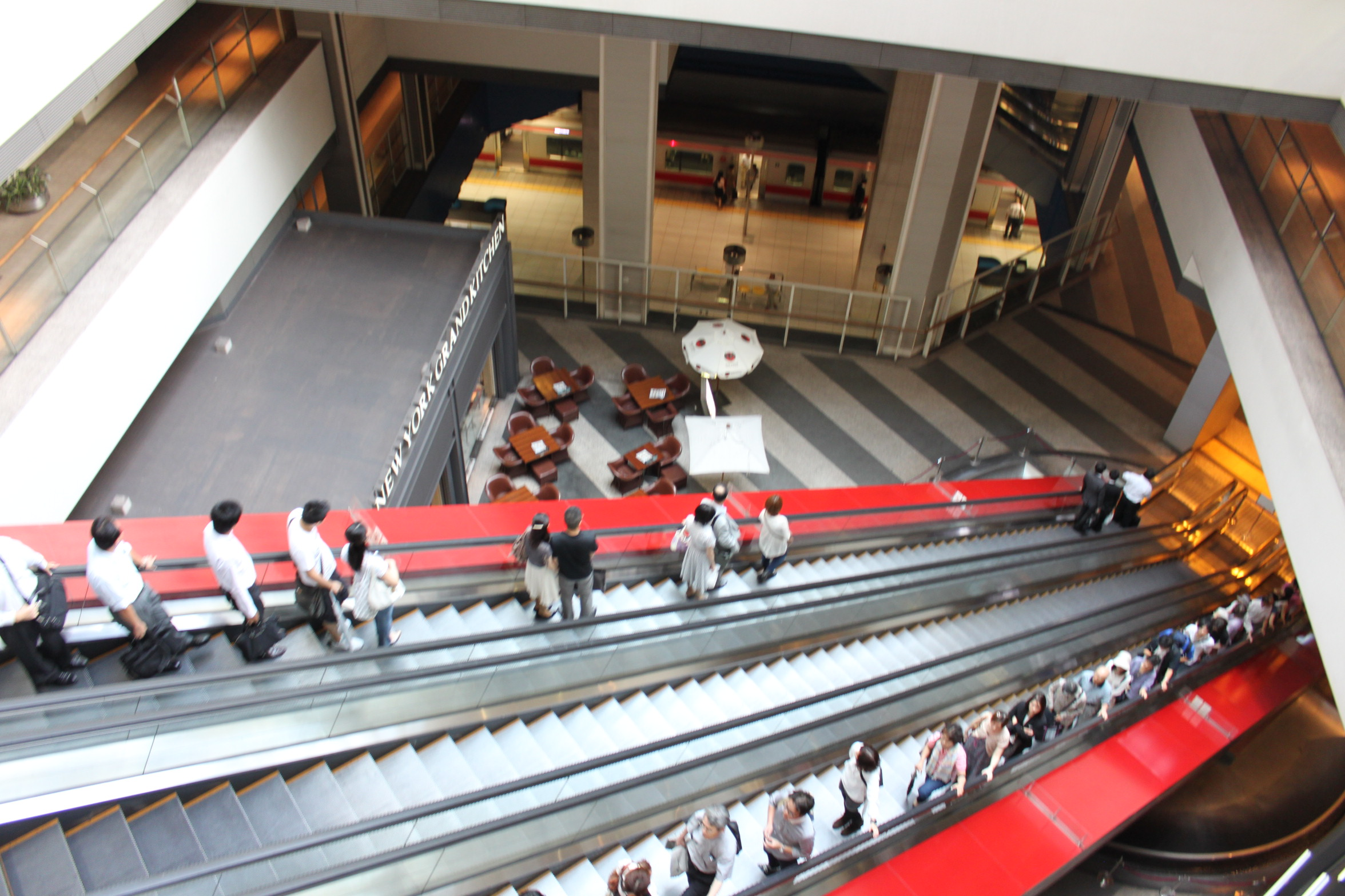 Escalators to platform level of Minatorimai Station, down from Queen's Square. By Bertel Schmitt